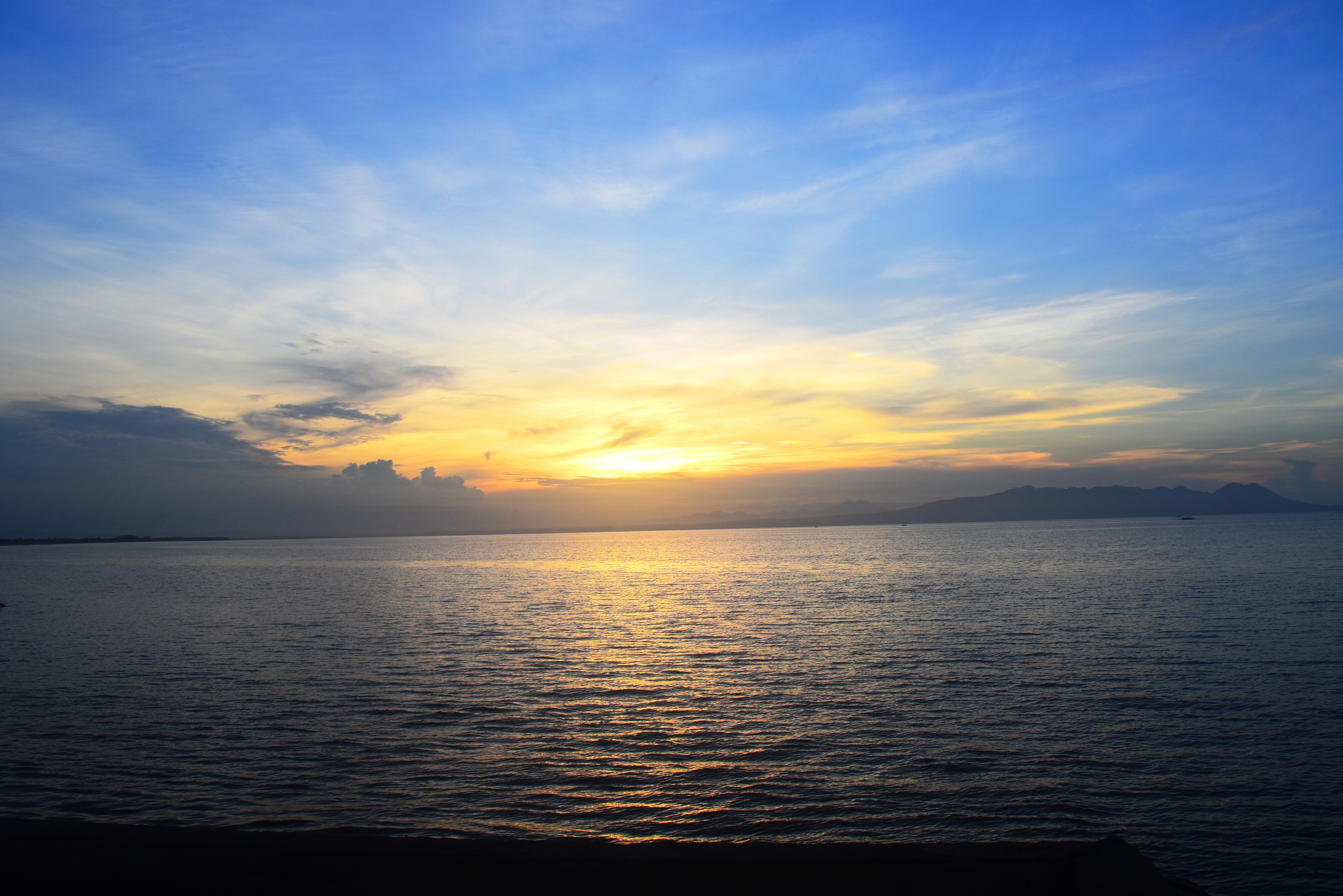 San Miguel Bay, Calanbanga, Camarines Sur